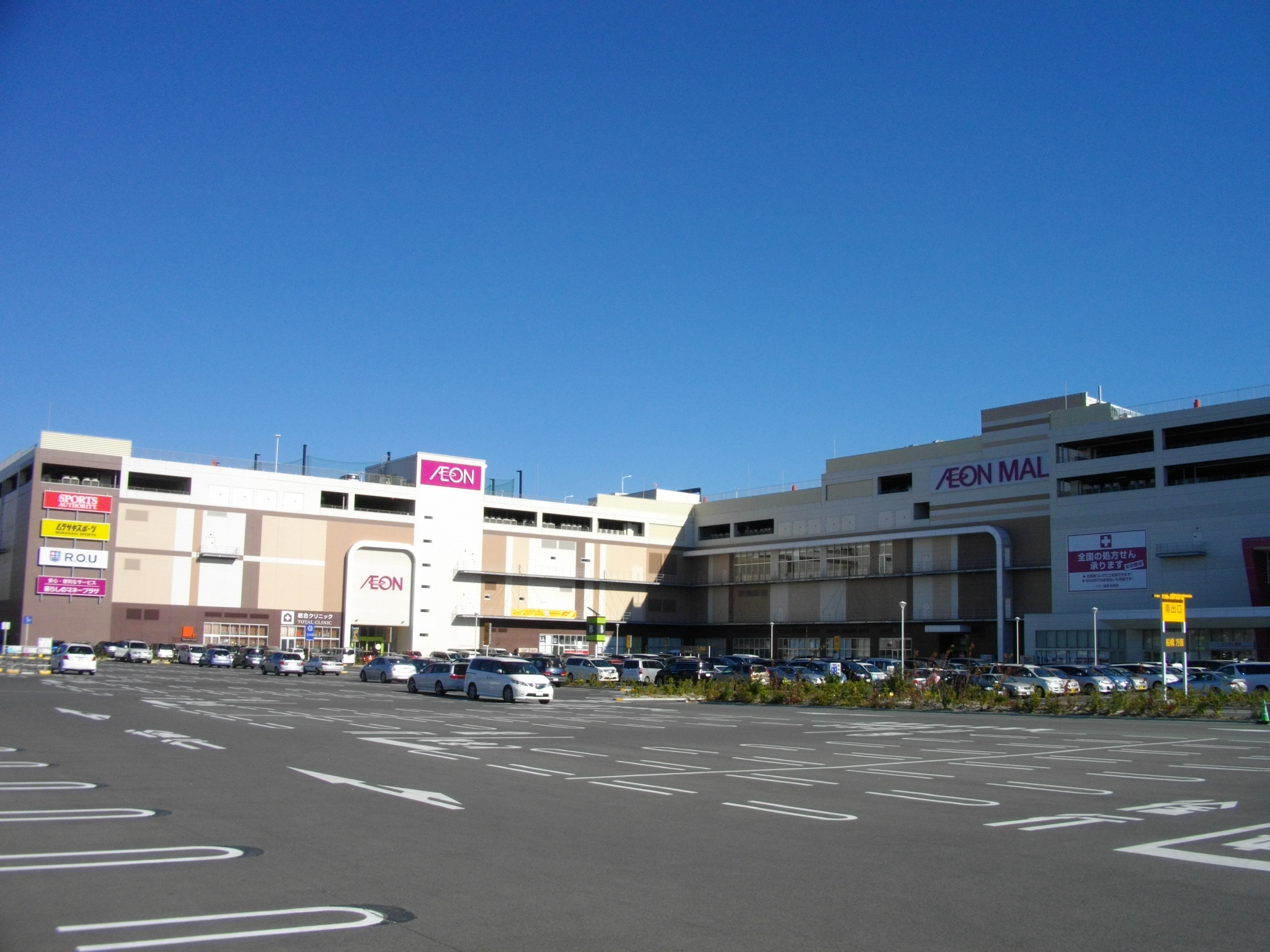 AEON Mall Funabashi